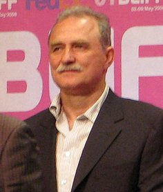 Banja Luka Film Festival: Lazar Ristovski, actor, president of jury.